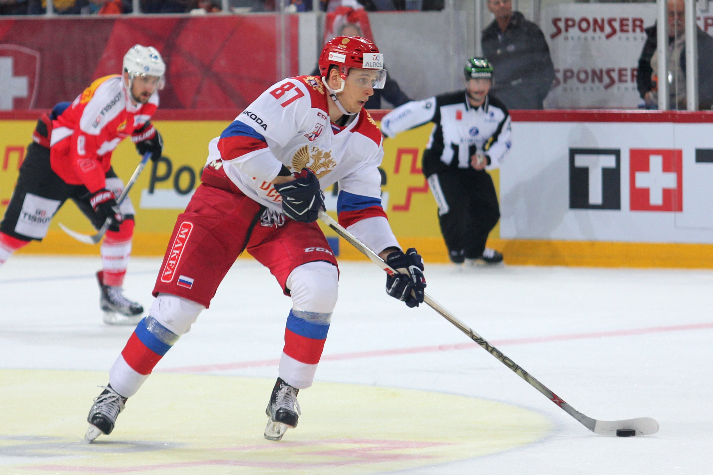 Vincent Praplan (S 8), Maxim Shalunov (R 87), Roman Kaderli (Ref 49).